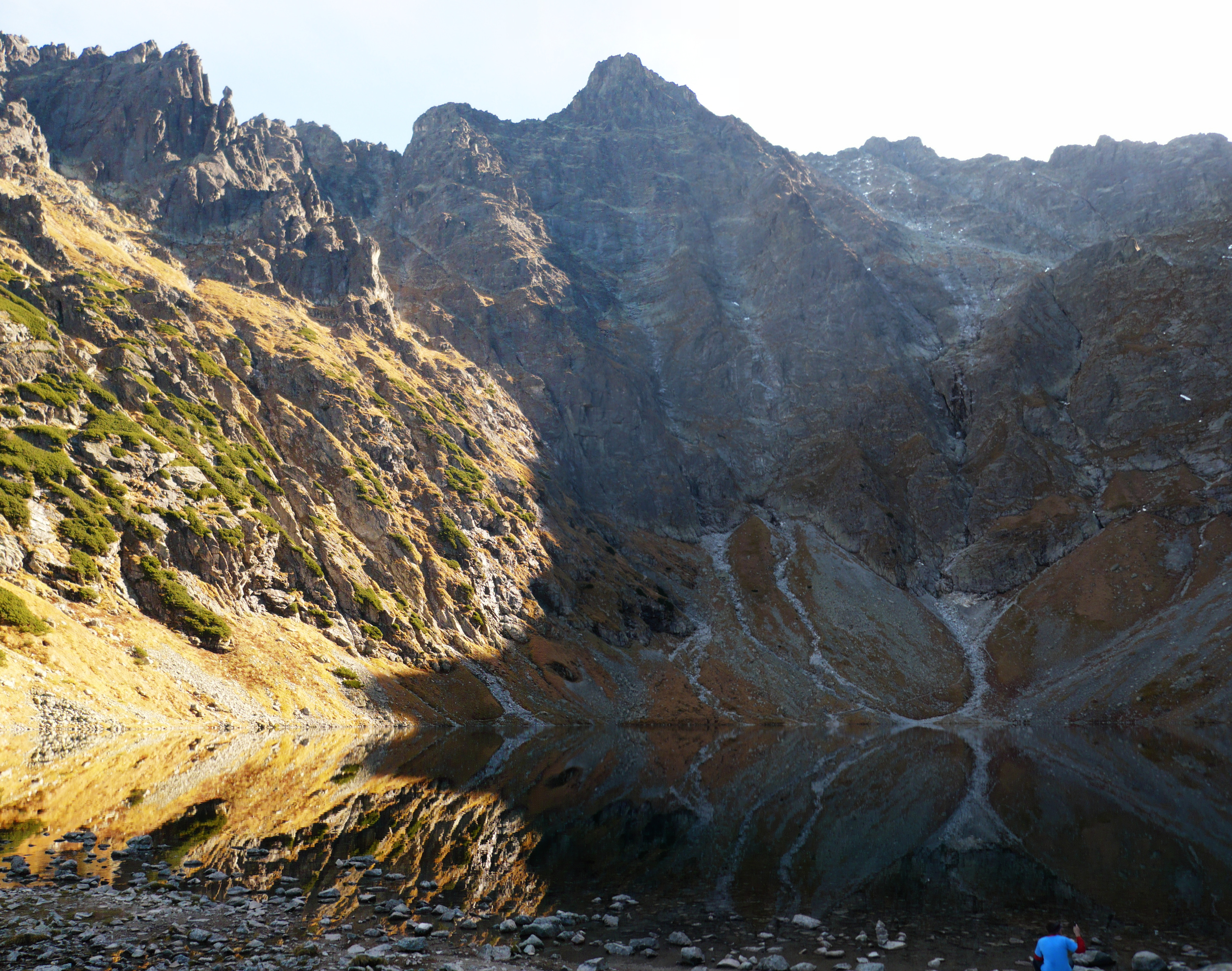 The view from Black Lake below Mount Rysy at Mount Niznie Rysy.